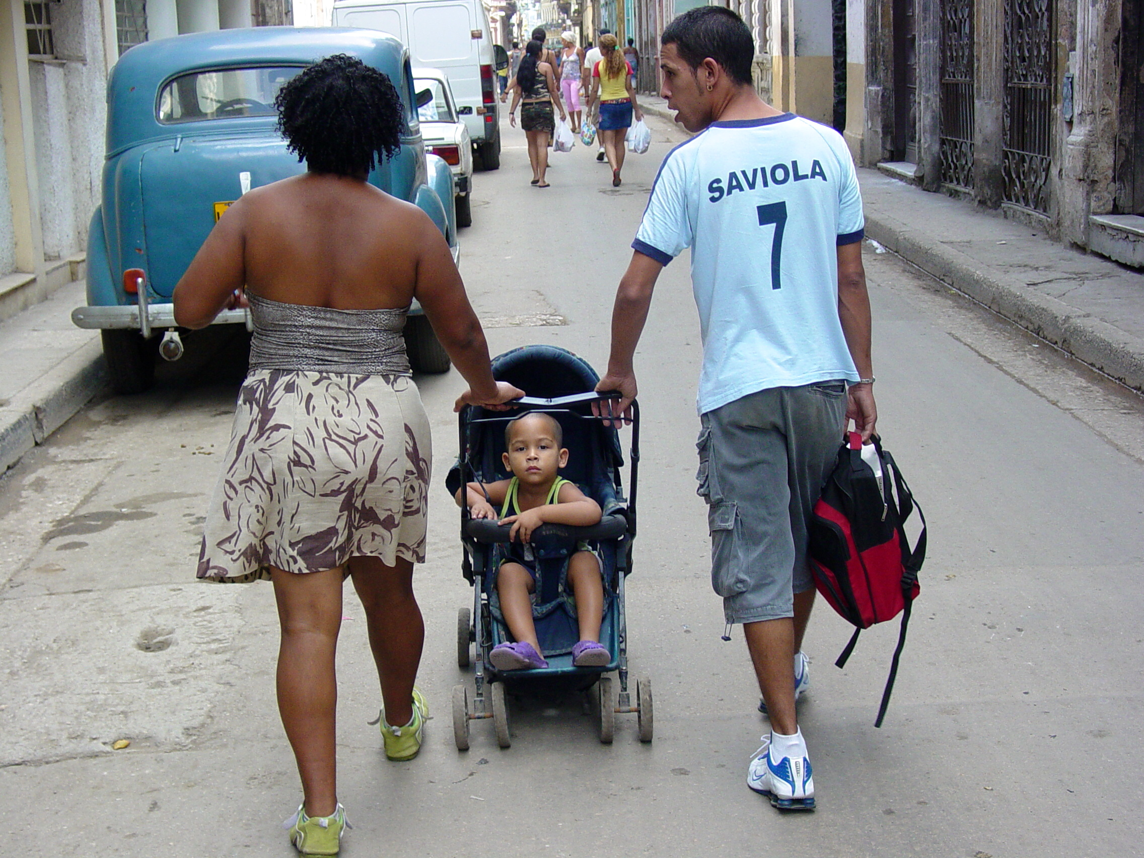 Couple on the street with child, Centro Habana, Havana, Cuba. December 2006.